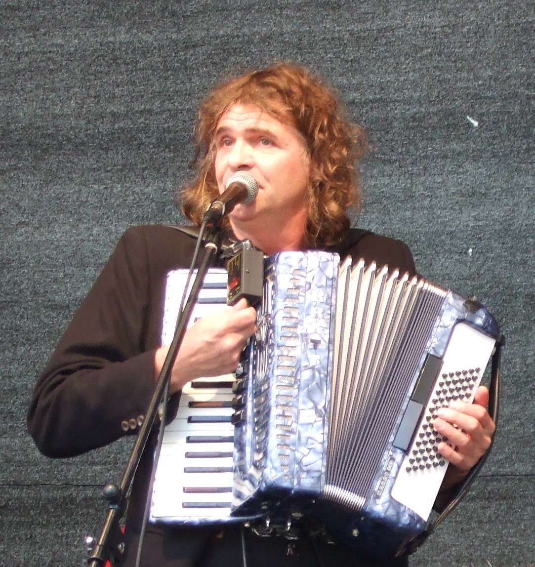 Singer-Songwriter Hans-Eckardt Wenzel with accordion on stage